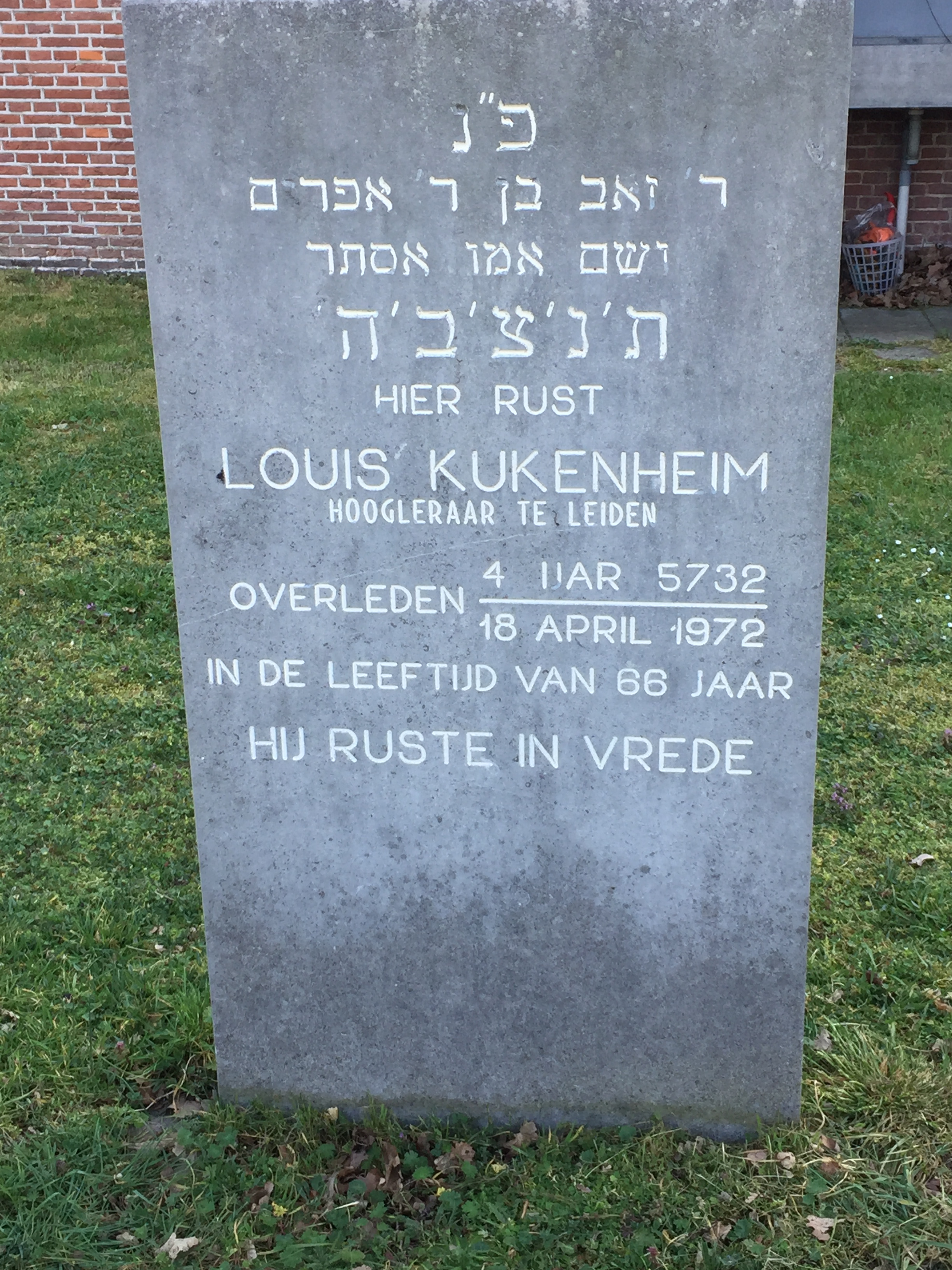 Jewish cemetery Katwijk